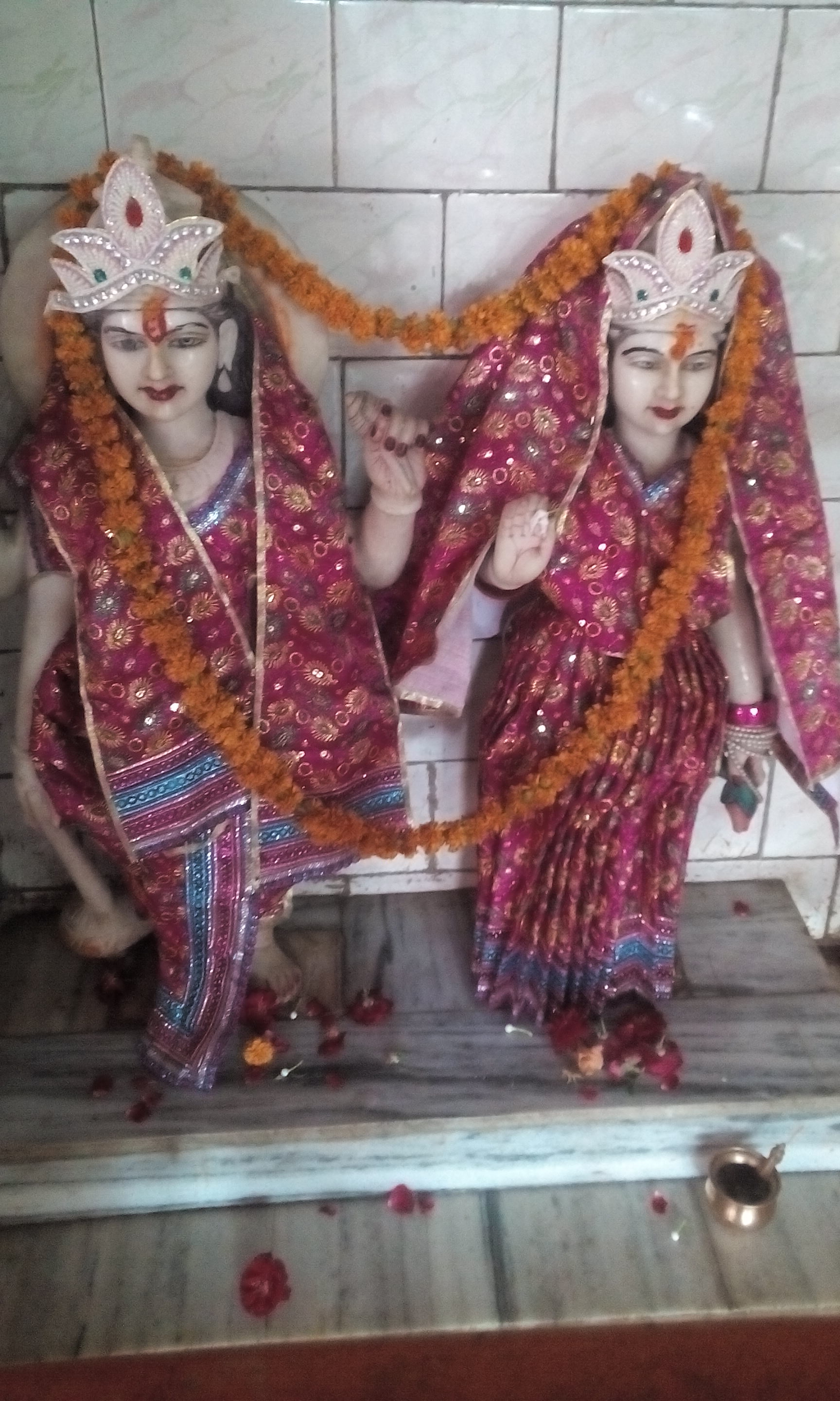 Bhagwan shri anant madhav one of the dwadash madhav situated at tirthraj prayag(Allahabad)